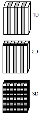 Scheme describing differents periodicity types in a photonic crystal